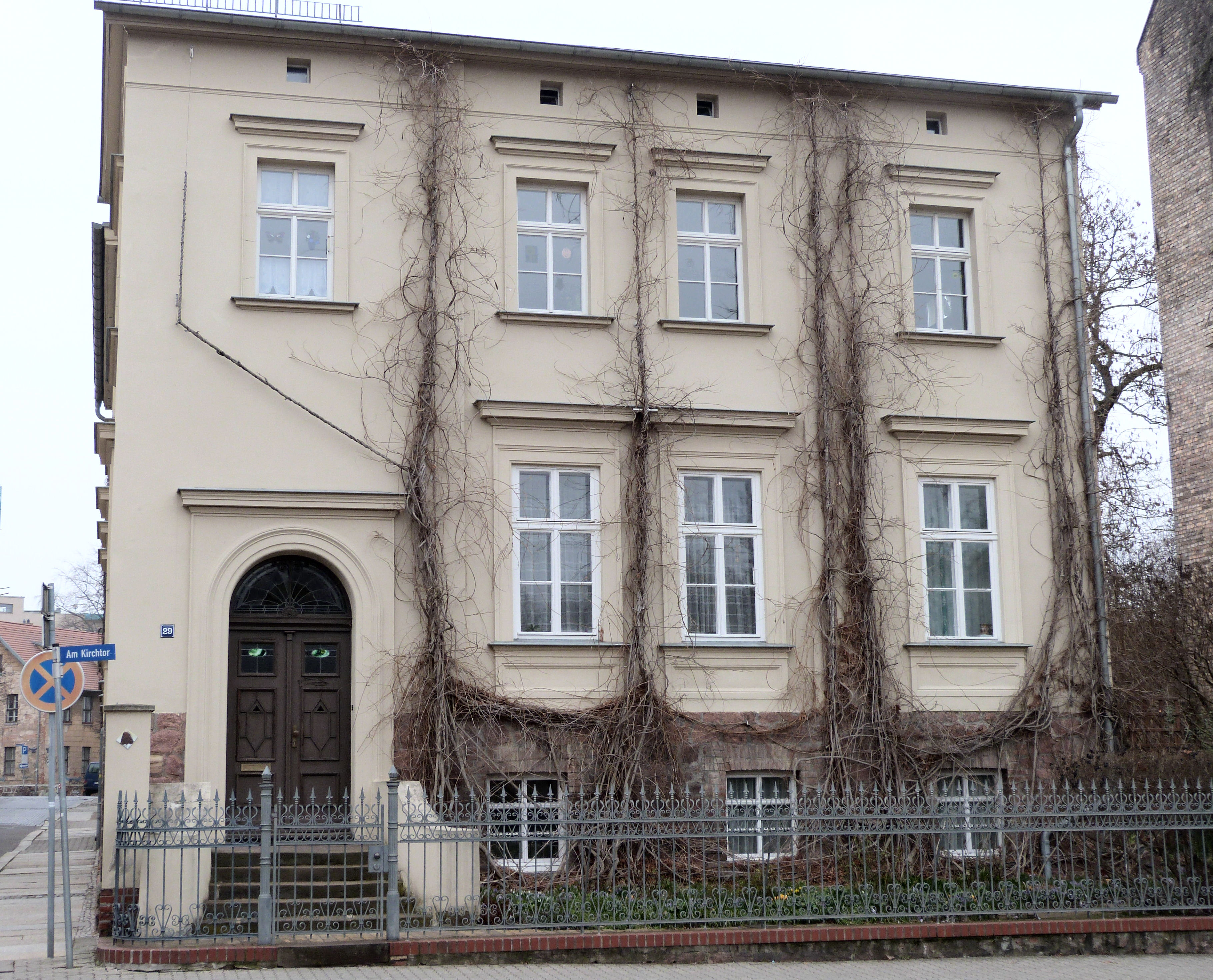 Villa Roß in the Street Am Kirchtor No. 29, Halle (Saale)